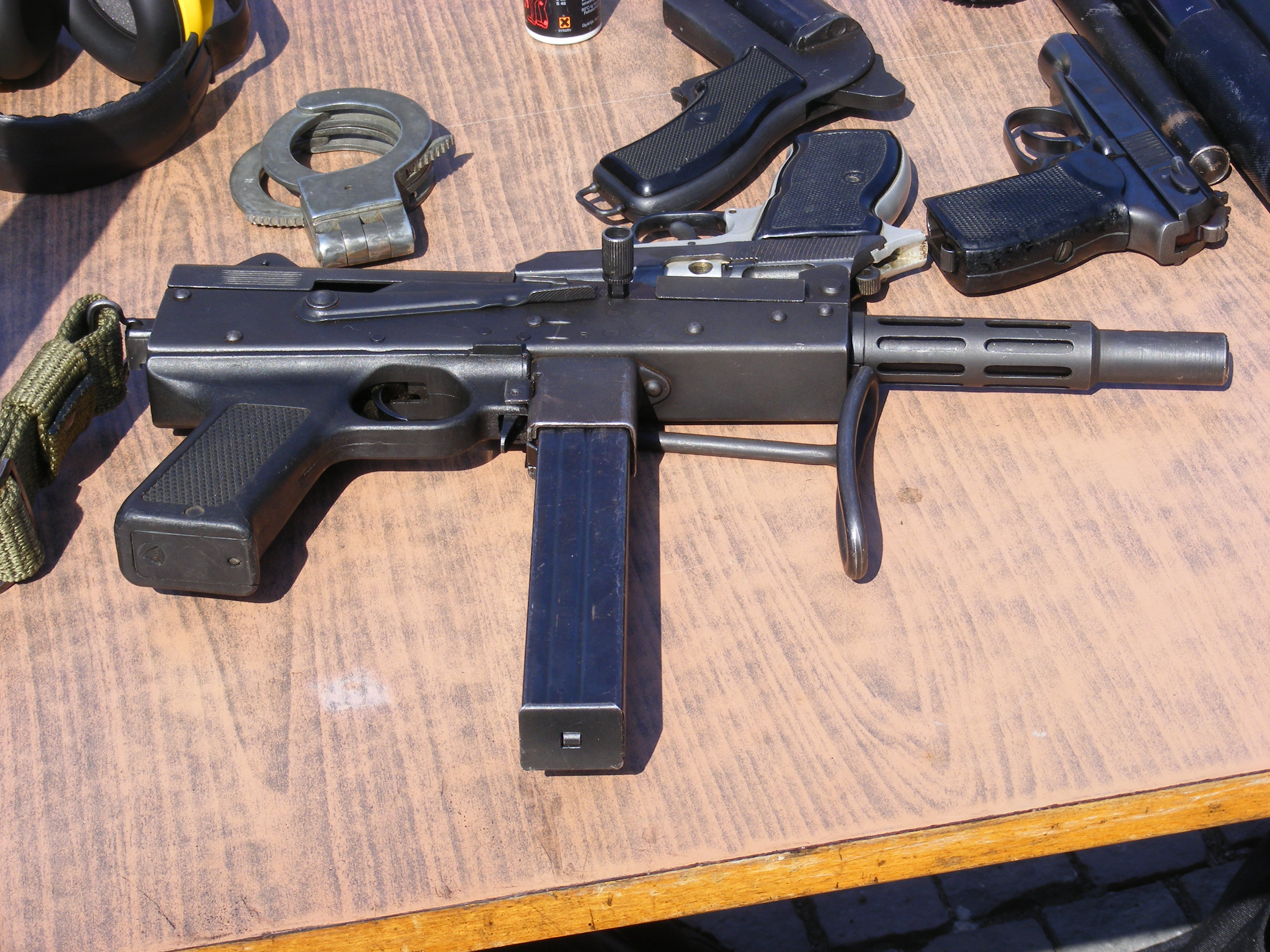 A PM md. 1996 RATMIL romanian made submachine gun.